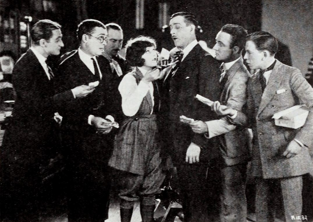 Still from the American comedy film Boy Crazy (1922) with Doris May, the actors are not identified, on page 69 of the February 18, 1922 Exhibitors Herald.